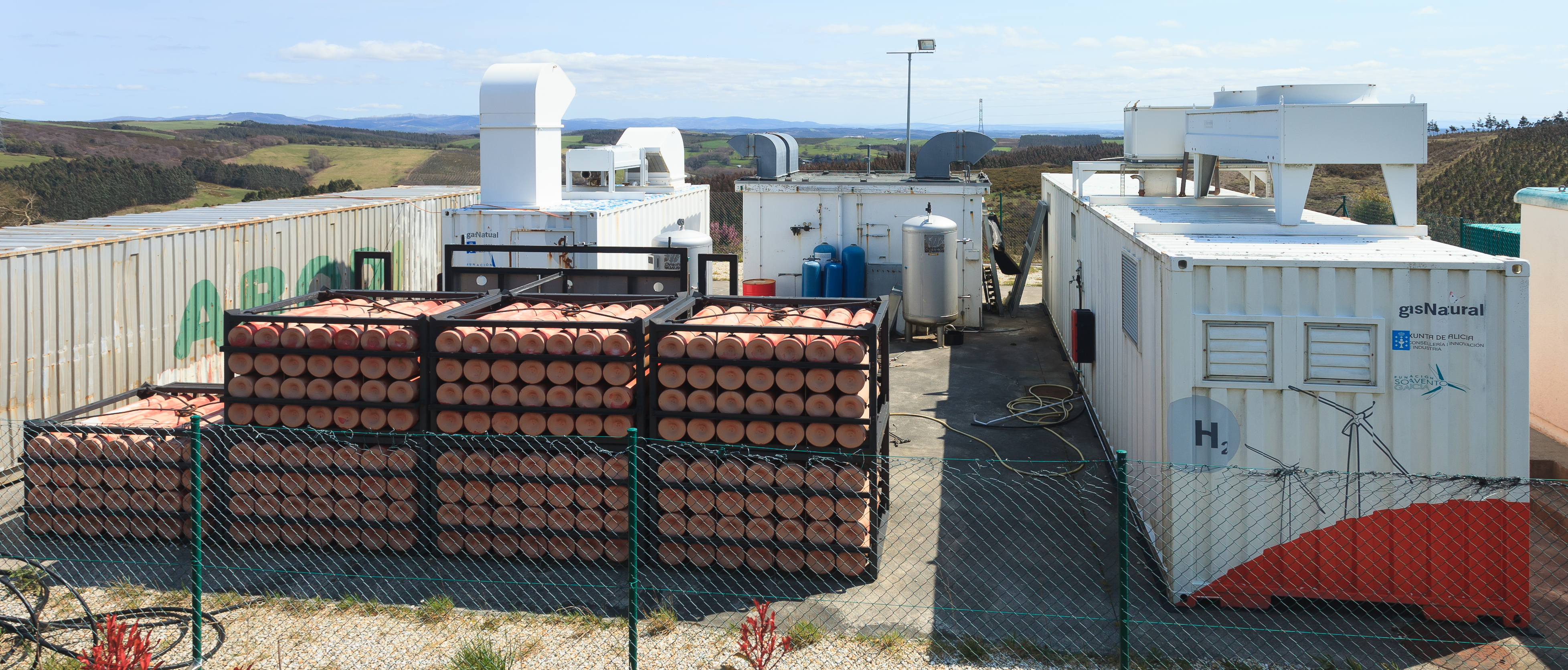 Power plant for hydrogen generation. Experimental wind farm of Sotavento. Galicia (Spain).